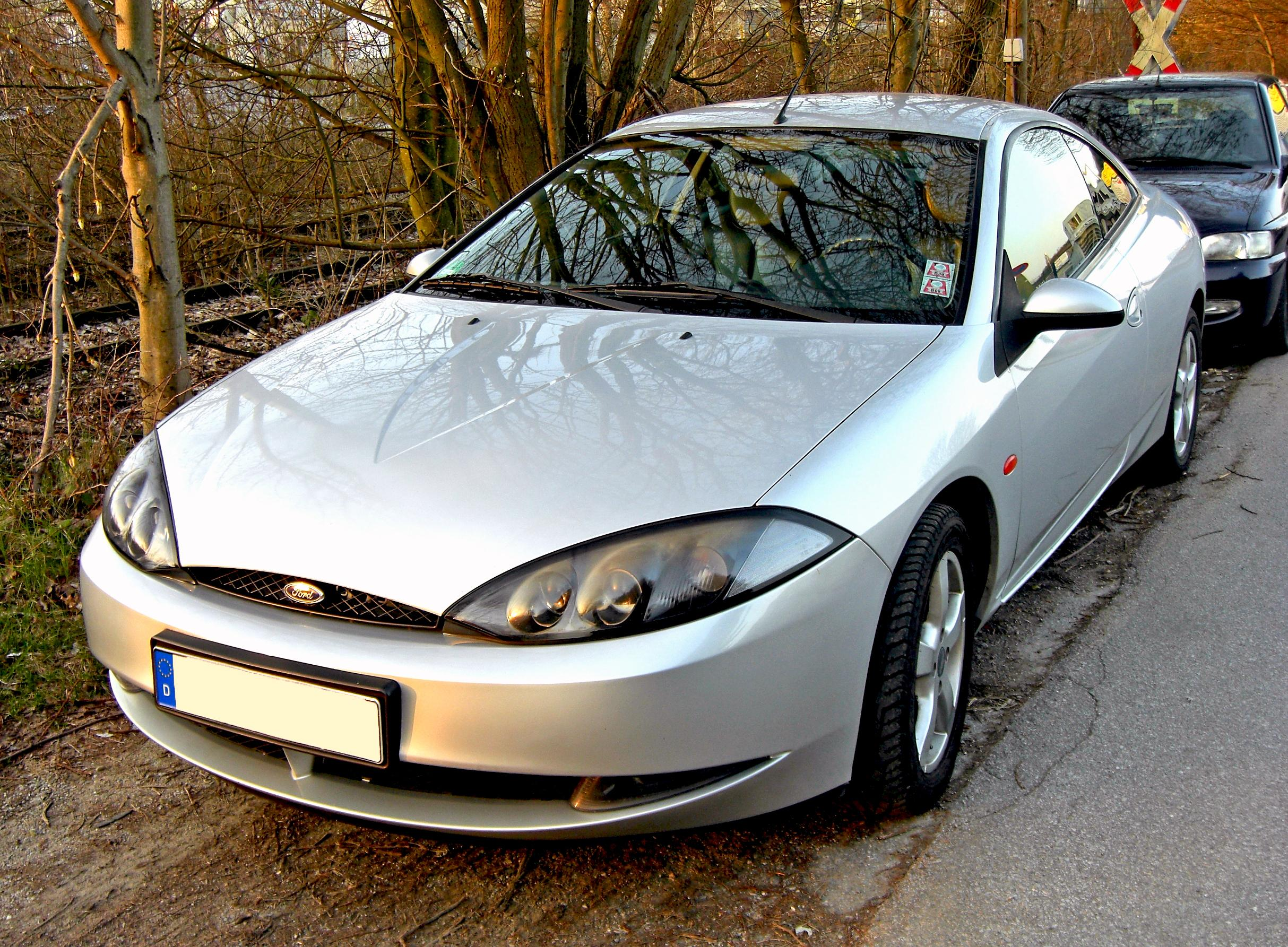 Ford Cougar